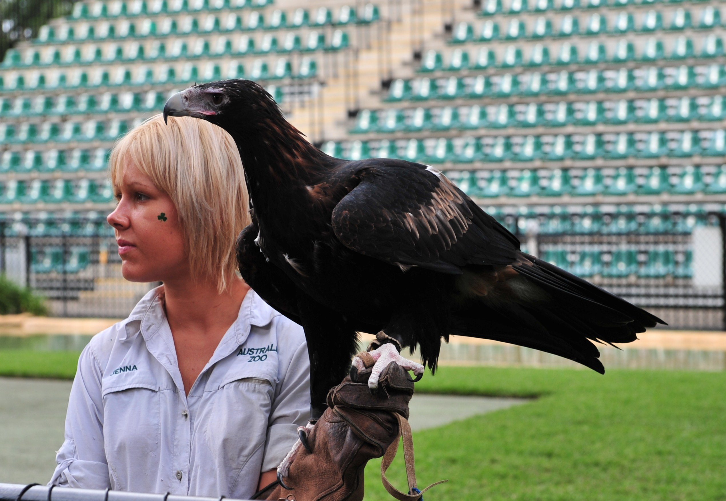 A Wedge-tailed Eagle at Australia Zoo with a zoo keeper. The photograph was taken on St Patrick's day and the keeper has a shamrock sticker on her face.